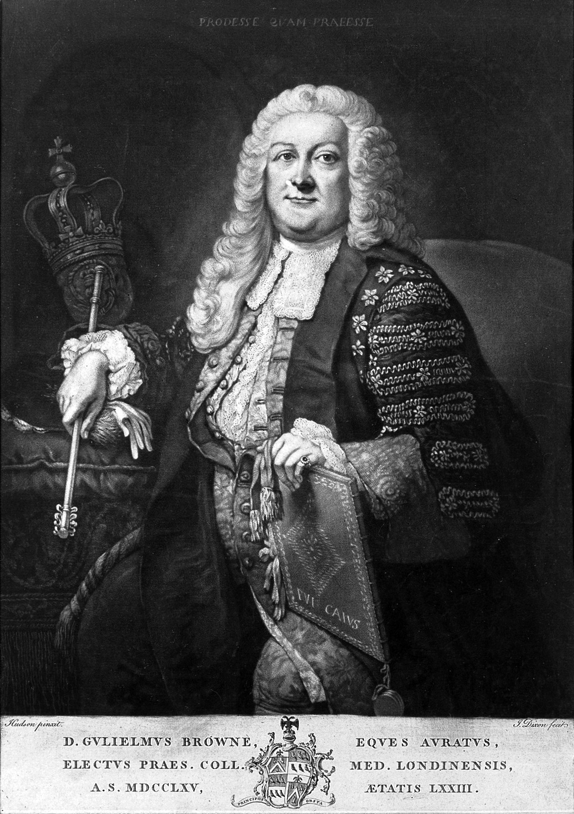 Portrait of Sir William Browne, after a painting by T. Hudson Iconographic Collections Keywords: president of the royal college of physicians; William Browne; Joshua Dixon; T. Hudson